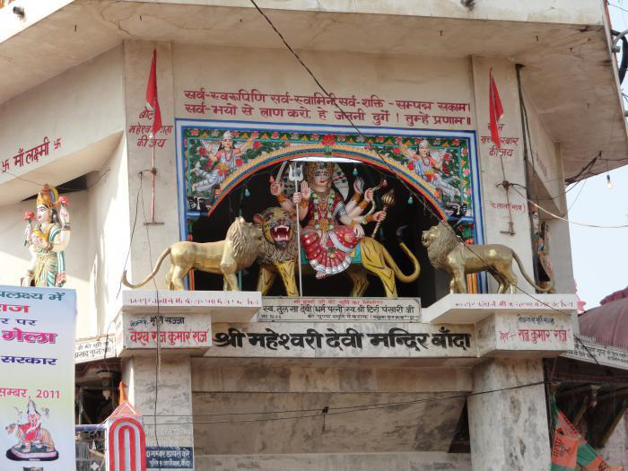 temple of goddess MAHESHWARI DEVI.